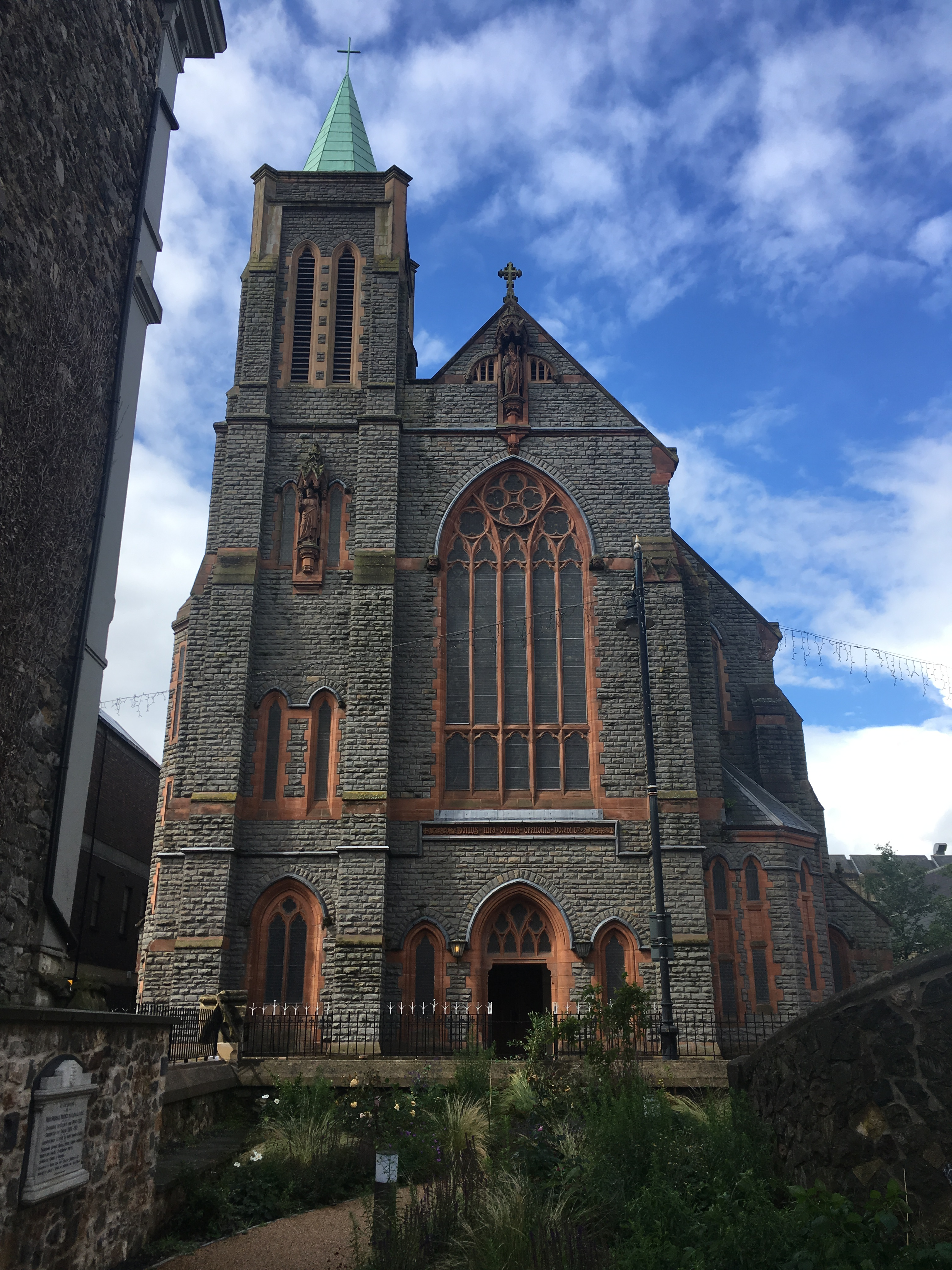 Cardiff Metropolitan Cathedral Wikidata has entry Q1350999 with data related to this item.